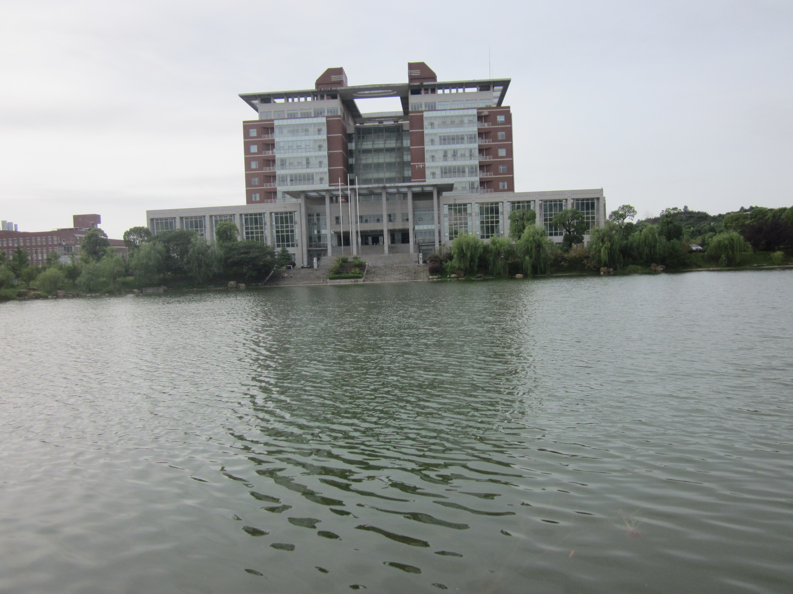 Changsha University of Science and Technology(CSUT; simplified